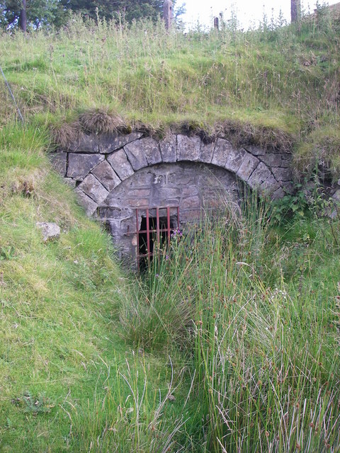 Pwll Du tunnel entrance This is the northern entrance of the long Pwll Du tunnel under the Blaen Pig area through which horse-drawn trams once ran. It is now flooded and largely walled up with the opening gated and locked.